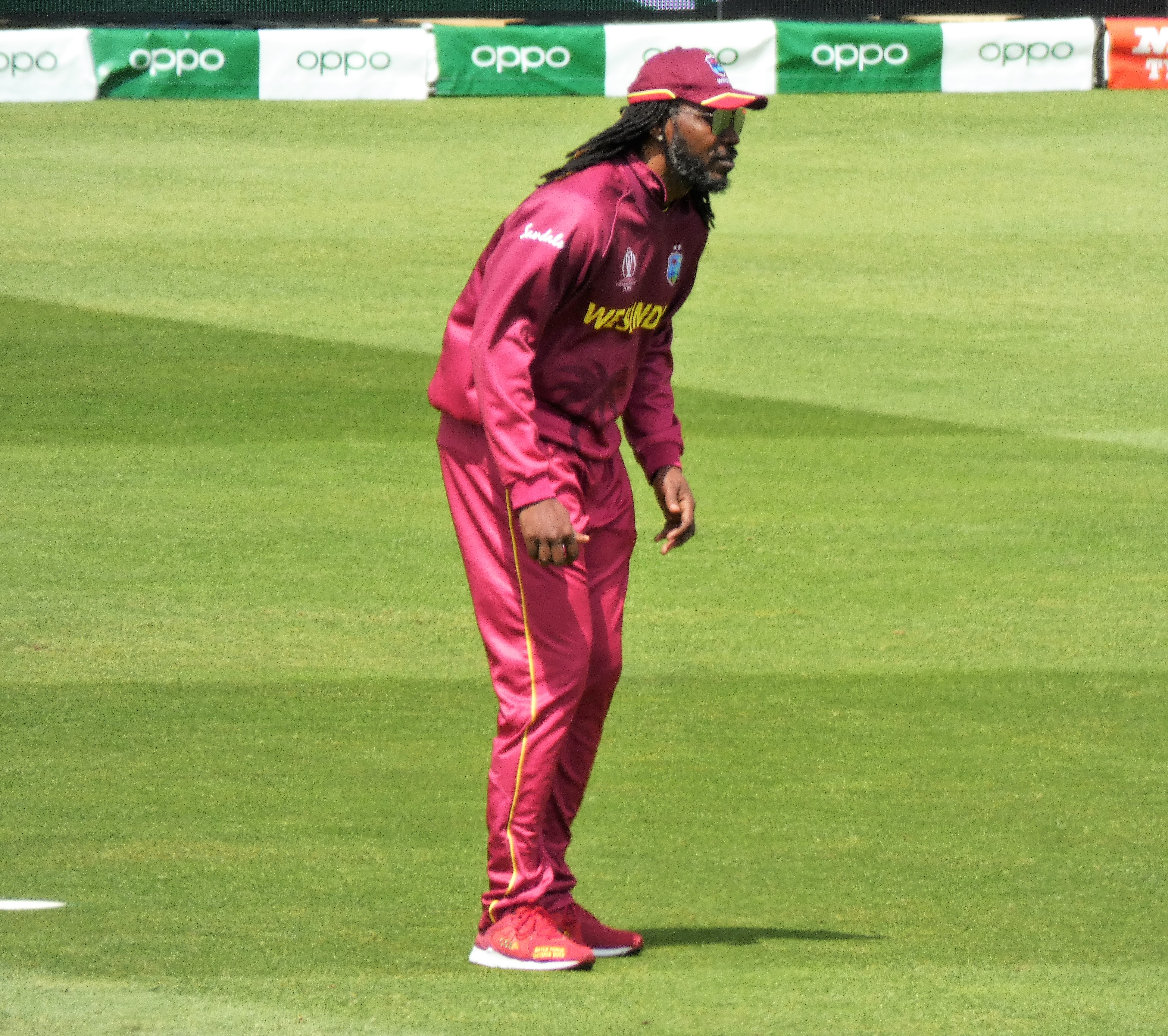 West Indies opener Chris Gayle fielding during the cricket World Cup match against Australia at Trent Bridge, 6 June 2019.